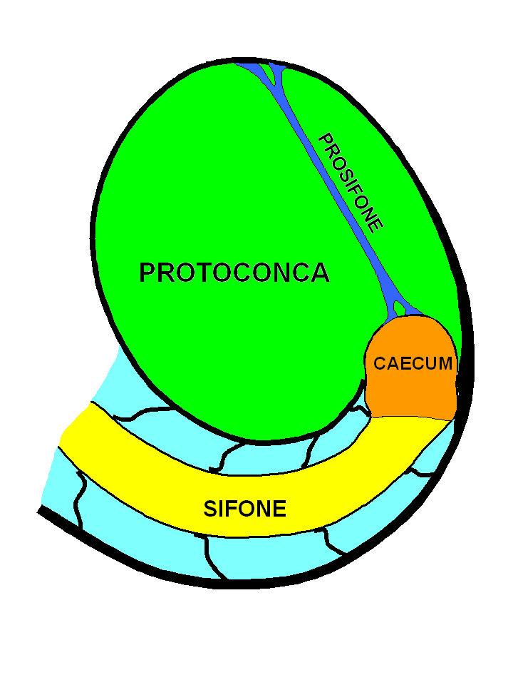 scheme of the ammonite protoconch (first embrionic chamber of the shell). text in italian.